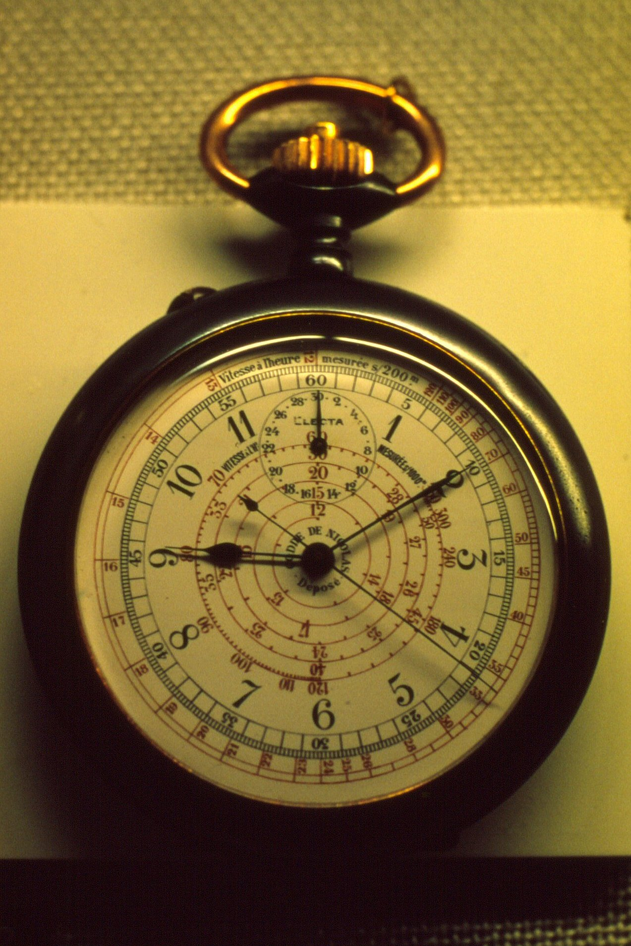 Musée International d'Horlogerie, La Chaux-De-Fonds, Switzerland.